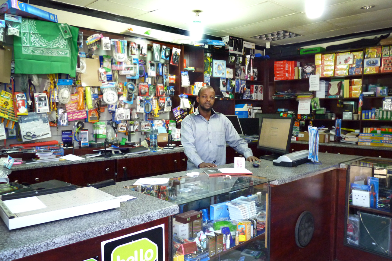 Abdikadir Hassan Mohammed, a Somali entrepreneur at his convenience store in Mayfair, Johannesburg.